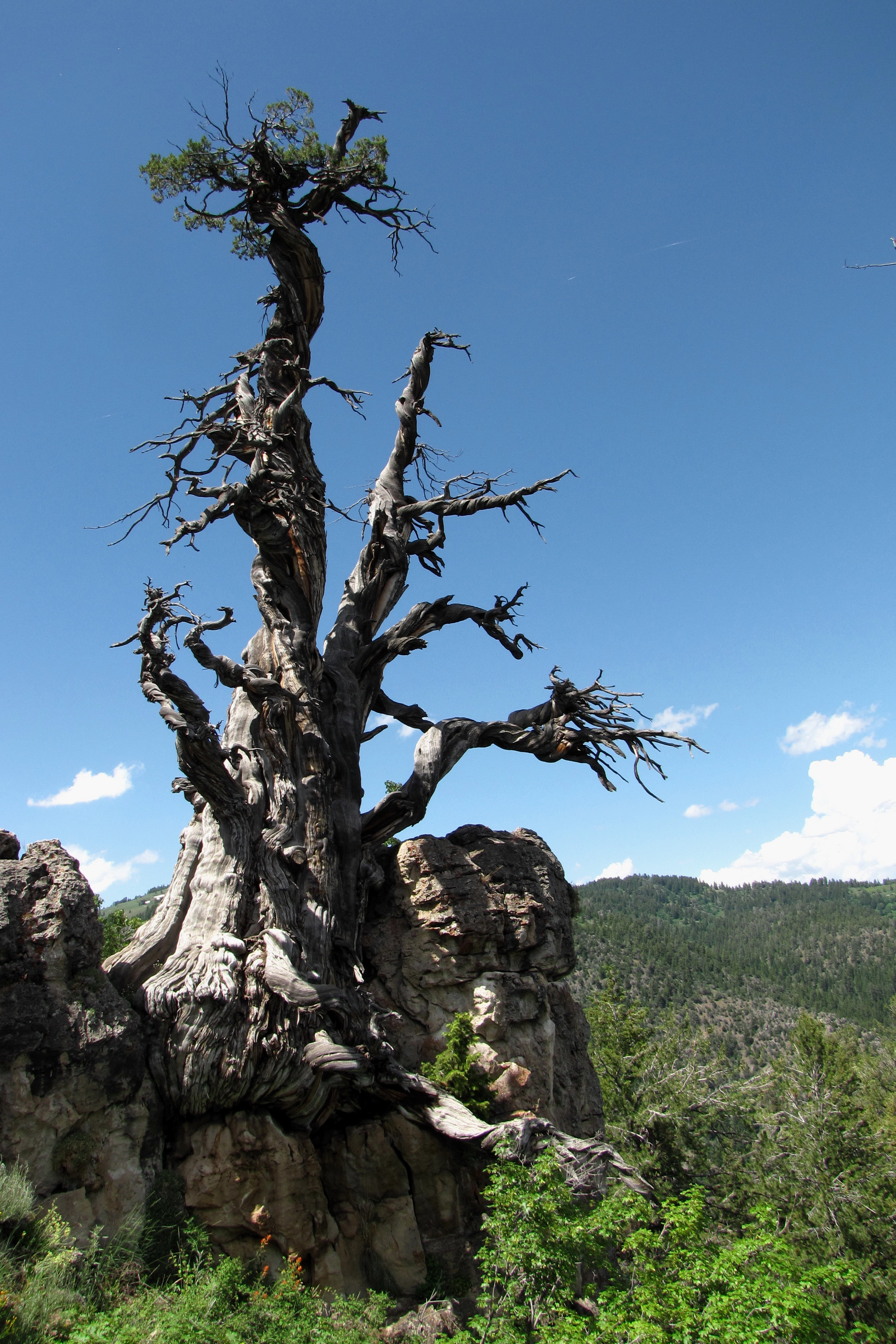 Jardine Juniper Trail. Cache Valley, Utah. July 10, 2011.